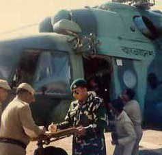 Syed Ali Al Mamun